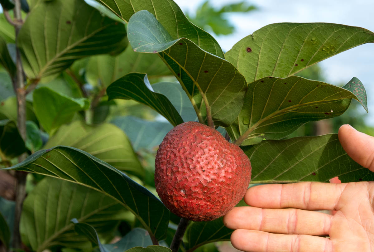 Nauclea latifolia, ripe fruit. Near Kedougou, Senegal.